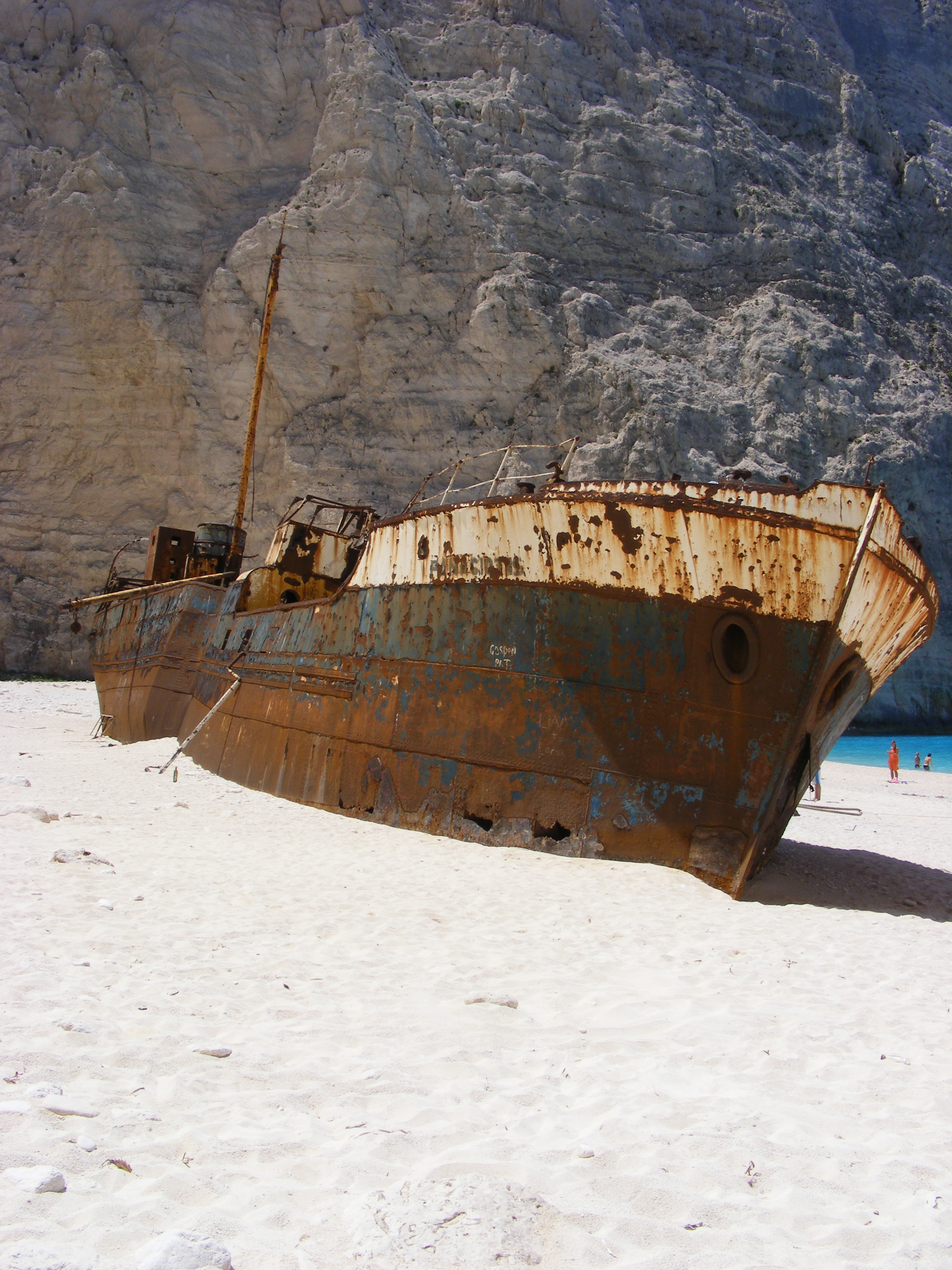 Zakynthos May 2009 Navagio Beach 07